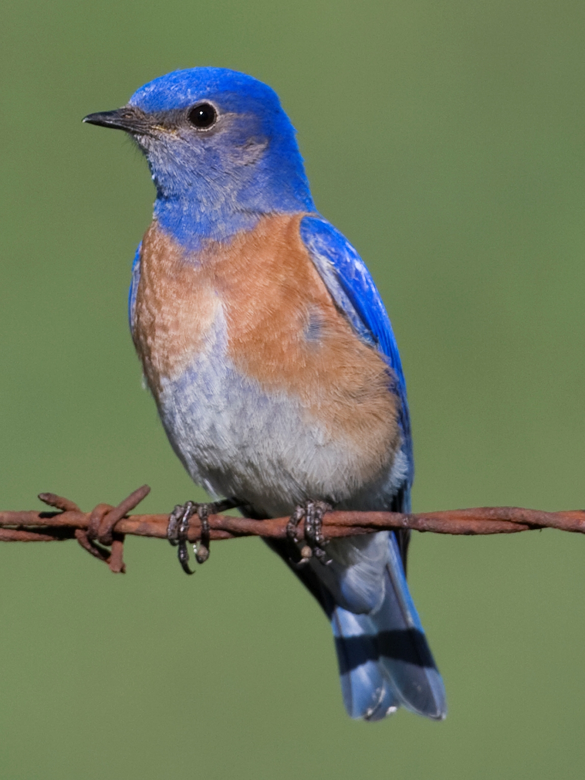 Male Western Bluebird (Sialia mexicana) on the Bob-wire.